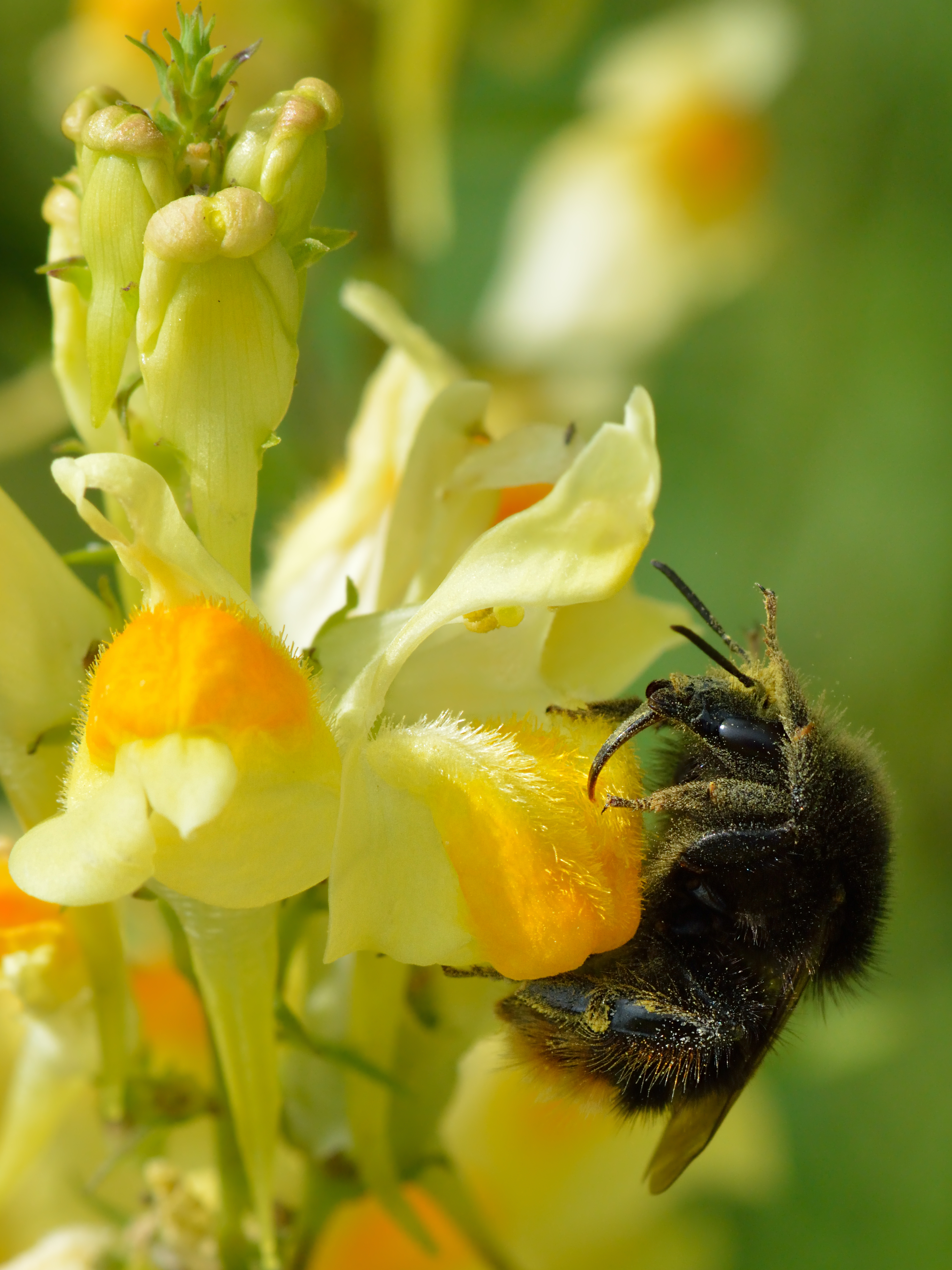 Red-shanked carder bee (Bombus ruderarius) on the common toadflax (Linaria vulgaris). Valingu, Northwestern Estonia.